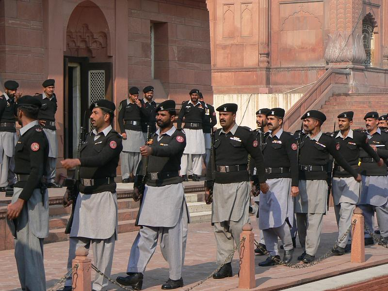 They aren't doing a very good job of marching.